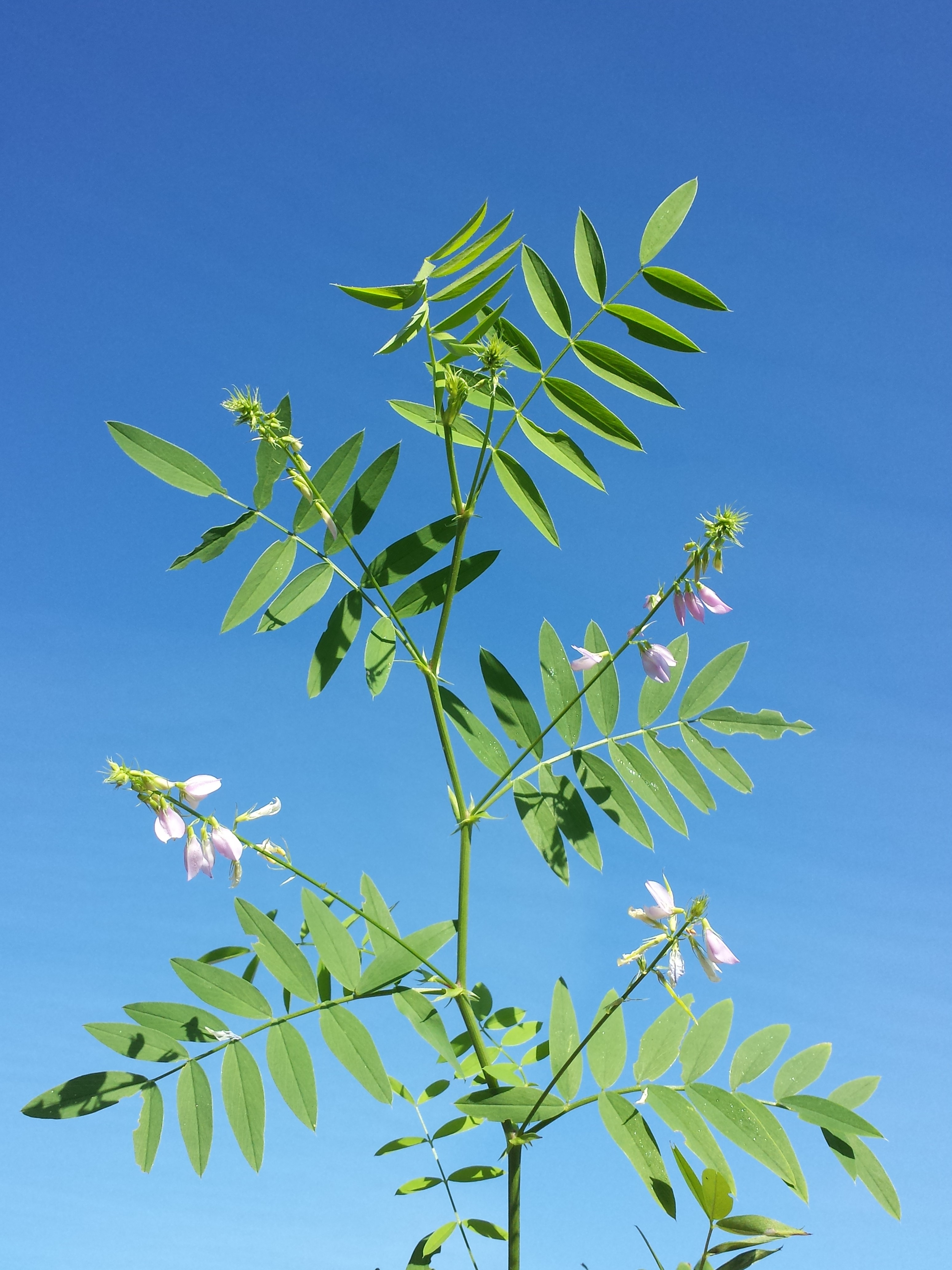 Habitus Taxonym: Galega officinalis ss Fischer et al. EfÖLS 2008 ISBN 978-3-85474-187-9 Location: Senningbach next to Hatzenbach, district Korneuburg, Lower Austria - 190 m a.s.l. Habitat: slope of a stream